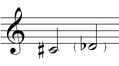 Enharmonic tones C-sharp and D-flat, author Radivoj Lazic, personal work, October 6, 2012.